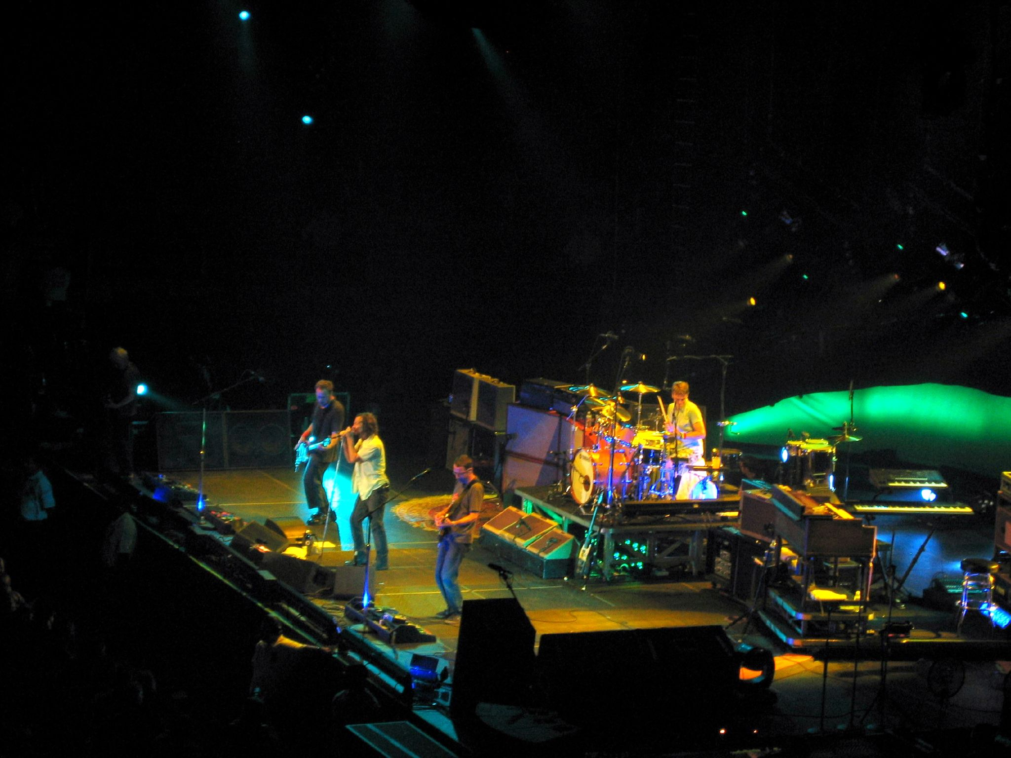 Pearl Jam - Los Angeles 7/9/06